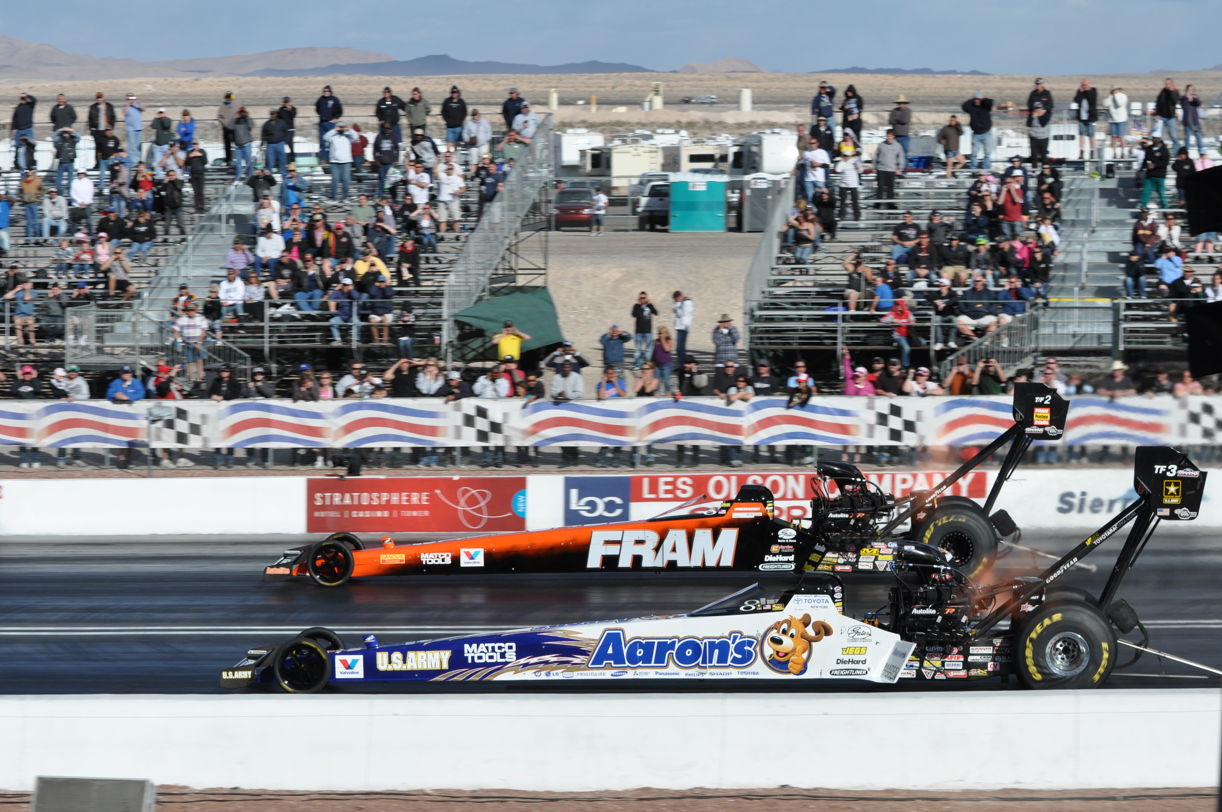 Top Fuel Dragster Final at LVMS April 1st 2012. Spencer Massey(Fram) Beats Antron Brown(Arron's)